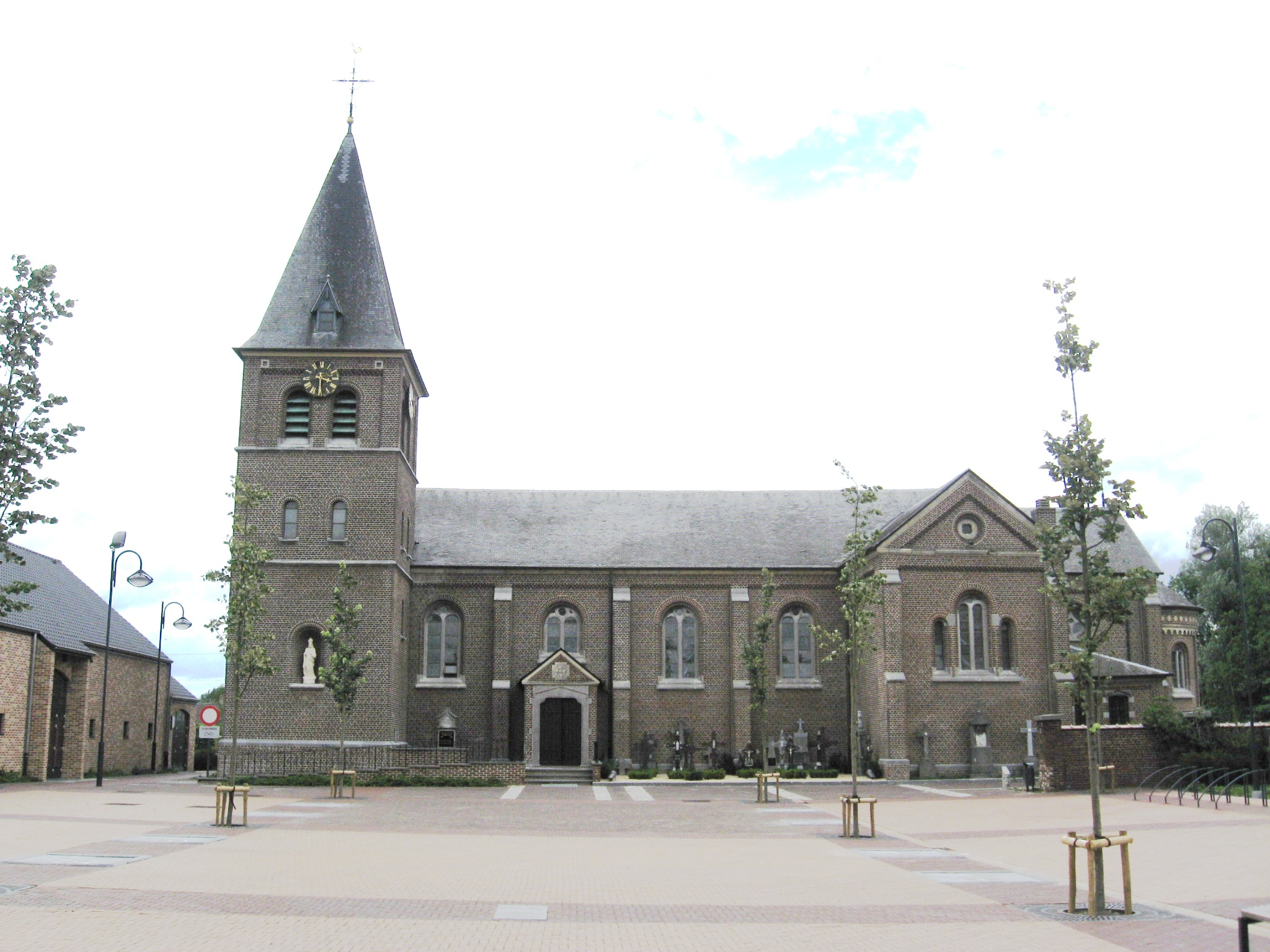 Church of Saint Trudo in Wijchmaal, Peer, Limburg, Belgium